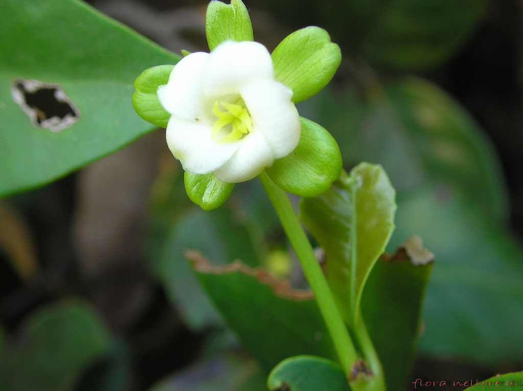 Family: Euphorbiaceae. Distribution: Occassional along shadymoist areas in hills.Limited to Peninsular India. Photographed at Narasimha konda . This is a female flower. Evergreen much branched shrubs or small trees of 2-3 mts tall. Leaves alternate, 6-10x2-5cm elliptic -ovate or lanceolate,acute at both ends. Flowers 1.5-2cm across, white, unisexual, male in axillary cymes, female solitary leaf opposed, Calyx in female large 5, oblong imbricate lobes, enlarged and spreading in fruit. Petals 5, erect,imbricate.Stamens 10-20 in 2 rows in males, Ovary 3 celled, ovules 1 in each cell, styles 3 connate at the base, stigmas bifid. Fruit 3 valved hispid, short lobed capsule. Fruiting calyx 0.7-1.5cm long, with a glandular pit near the tip. Reference: Flora of Nellore district by B.Suryanarayana & A.S.Rao.Flora of presidency of Madras by J.S Gamble, ENVIS